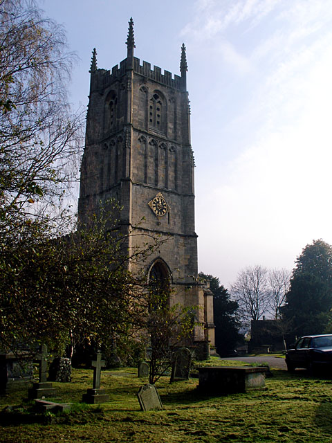 St Mary the Virgin, Wotton-under-Edge The church is literally just on one side of the grid line, and the foreground is in ST7593. The tower dates from the late 14th century.